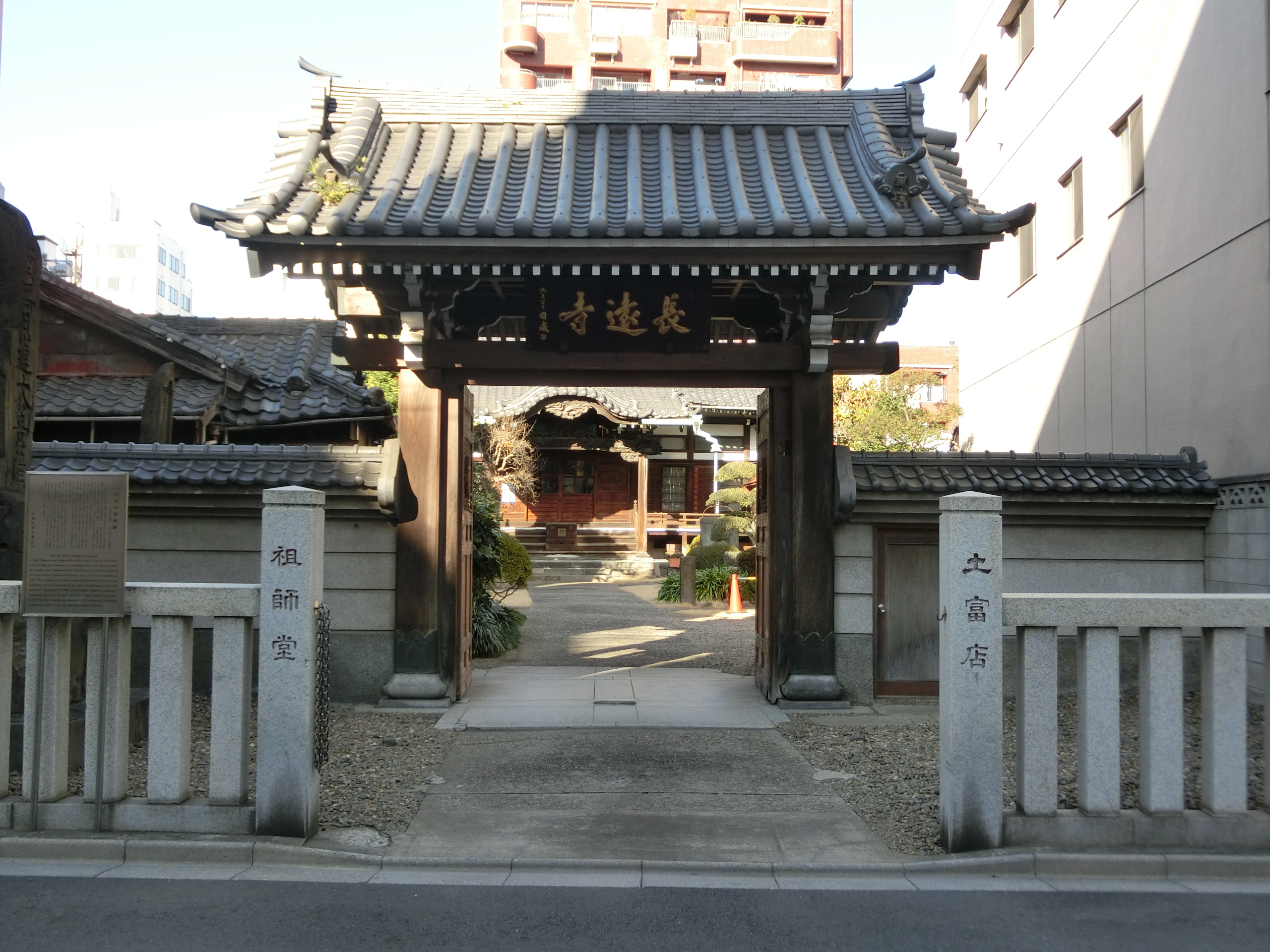 Choon-ji (Taito)